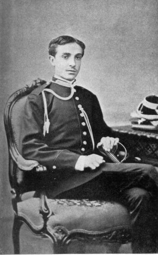 Photograph of Don Carlos de Borbón (1848-1909).